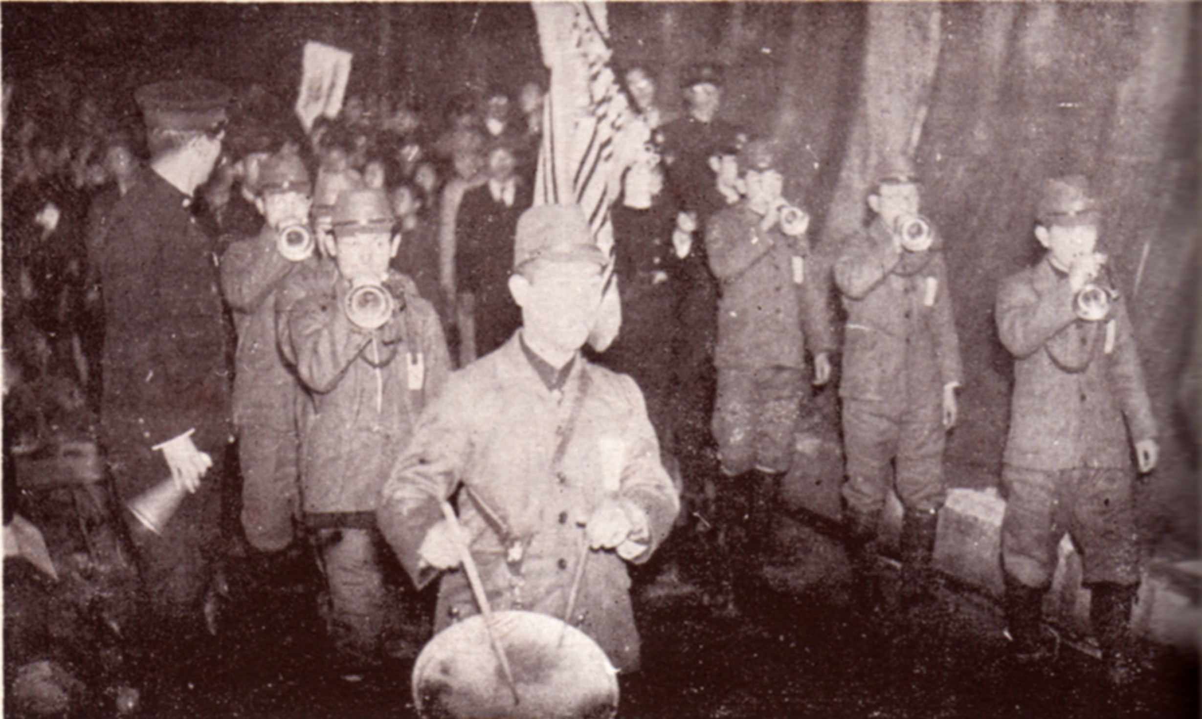 Marching event celebrating completion of Kammon railway tunnel